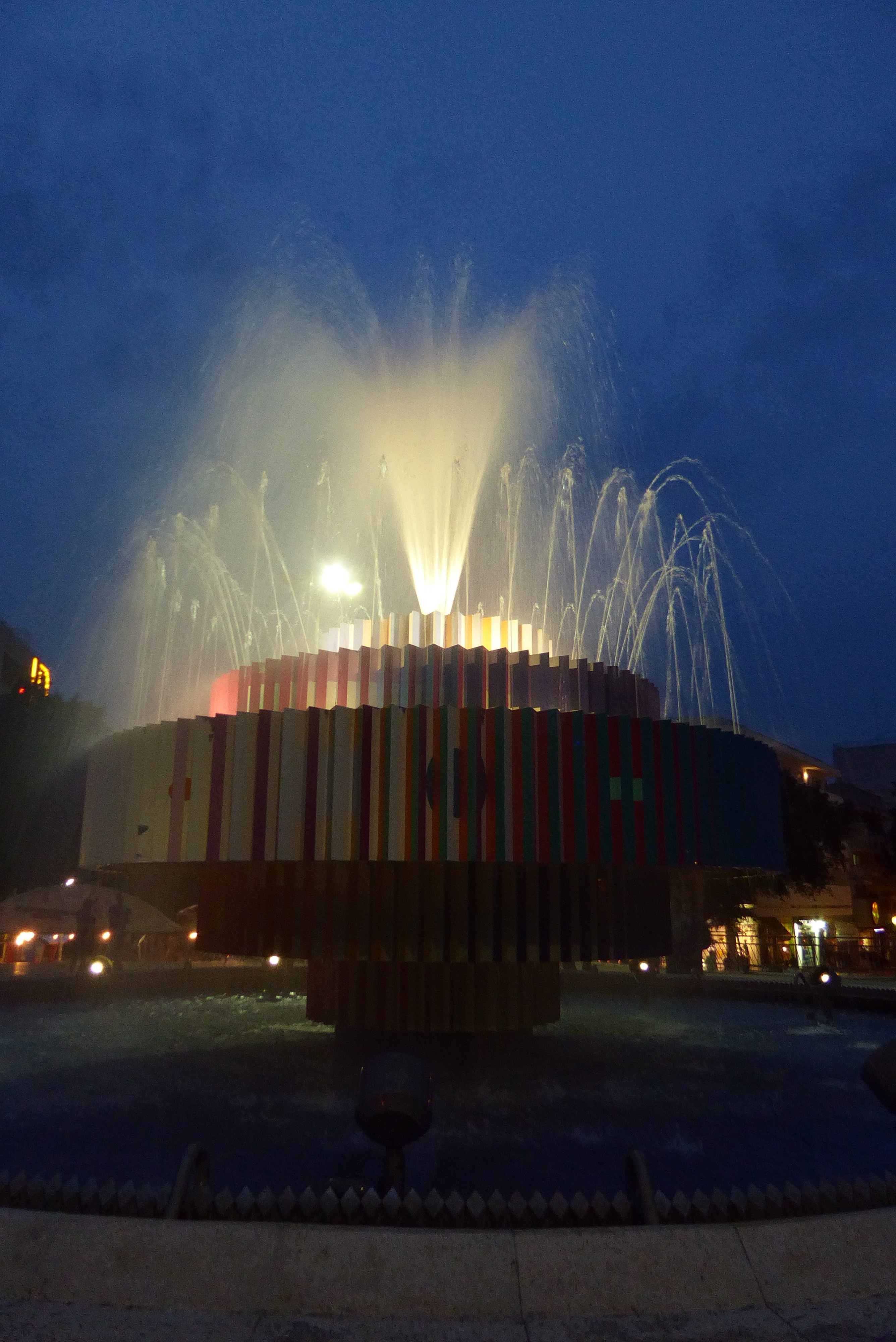 Dizengoff Square